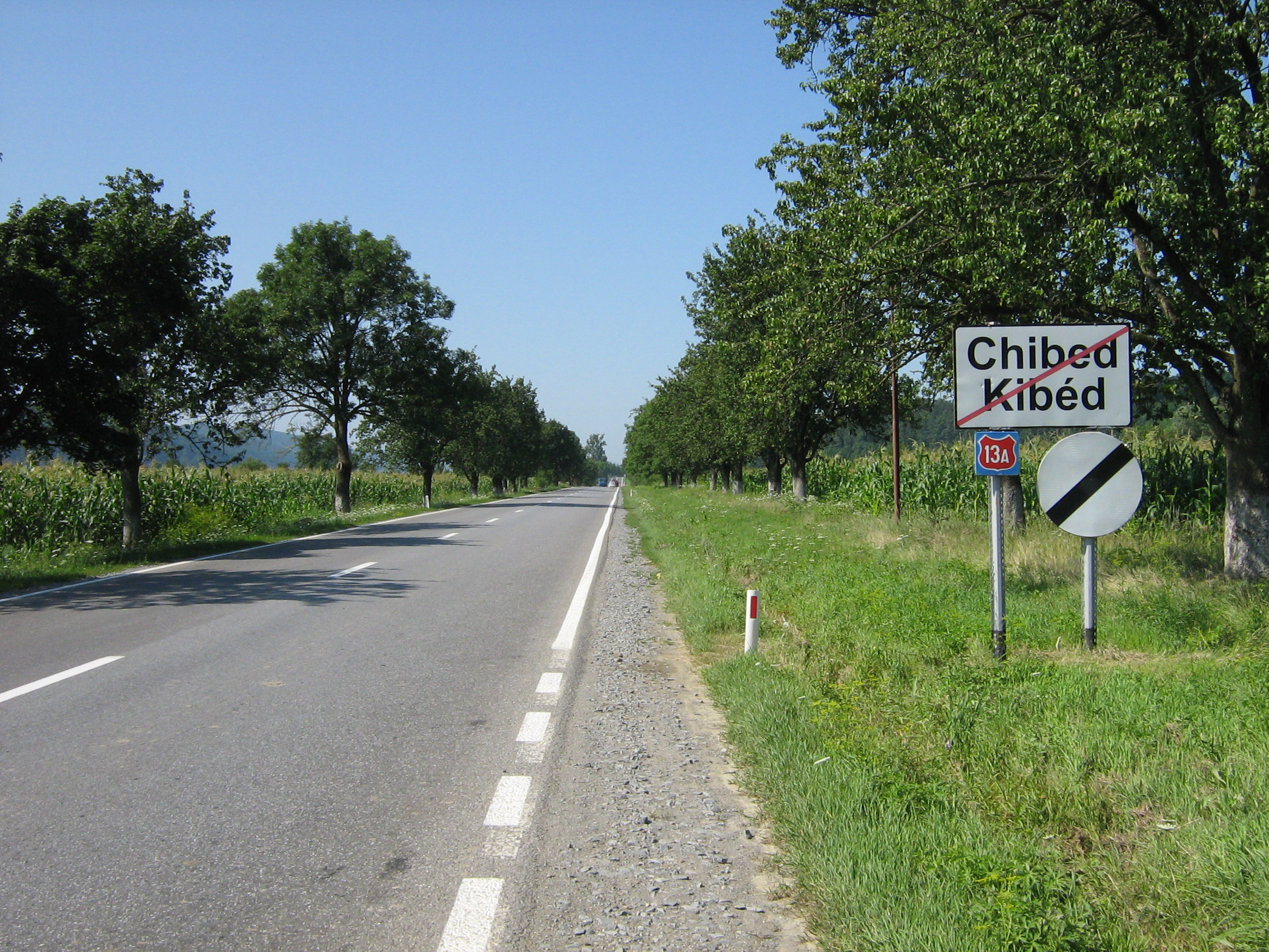 Name table of Chibed